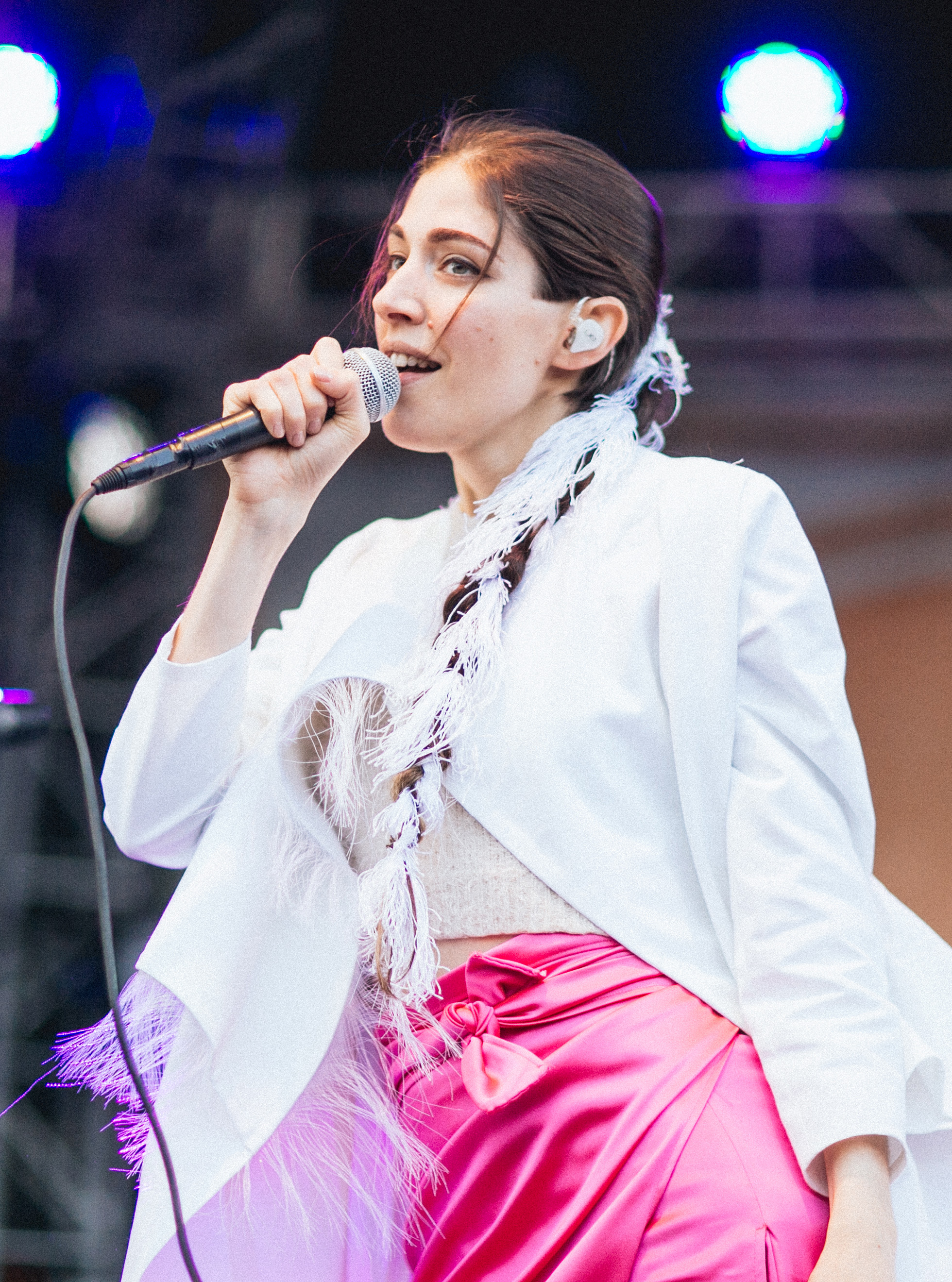 Chairlift playing Main Stage during Treefort Music Fest 2016